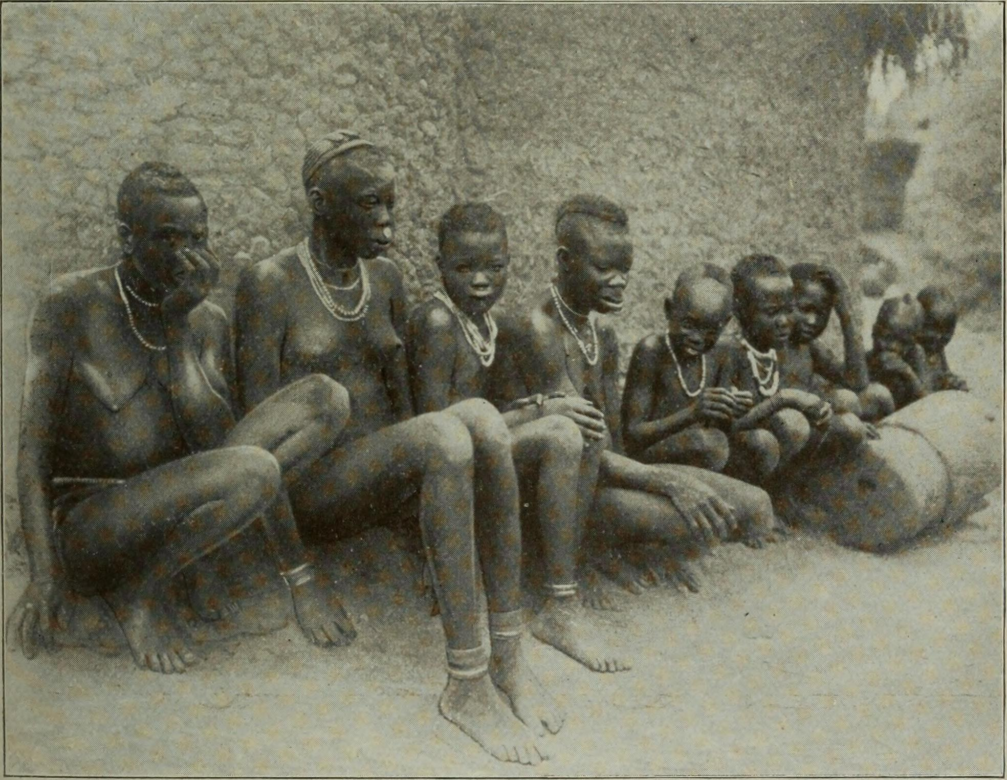 Massa women, 1910 Title: From the Congo to the Niger and the Nile : an account of The German Central African expedition of 1910-1911 Year: 1913 (1910s) Authors: Adolf Friedrich, Duke of Mecklenburg-Schwerin, 1873-1969 Deutsche Zentral-Afrika-expedition, 1910-1911 Subjects: Publisher: London : Duckworth Text Appearing Before Image: 109. Massa head-dress. Text Appearing After Image: 110. Massa women. , : tfe*$ ■1 - ■ •• *-^^ 111. Bana farmstead near Ham.